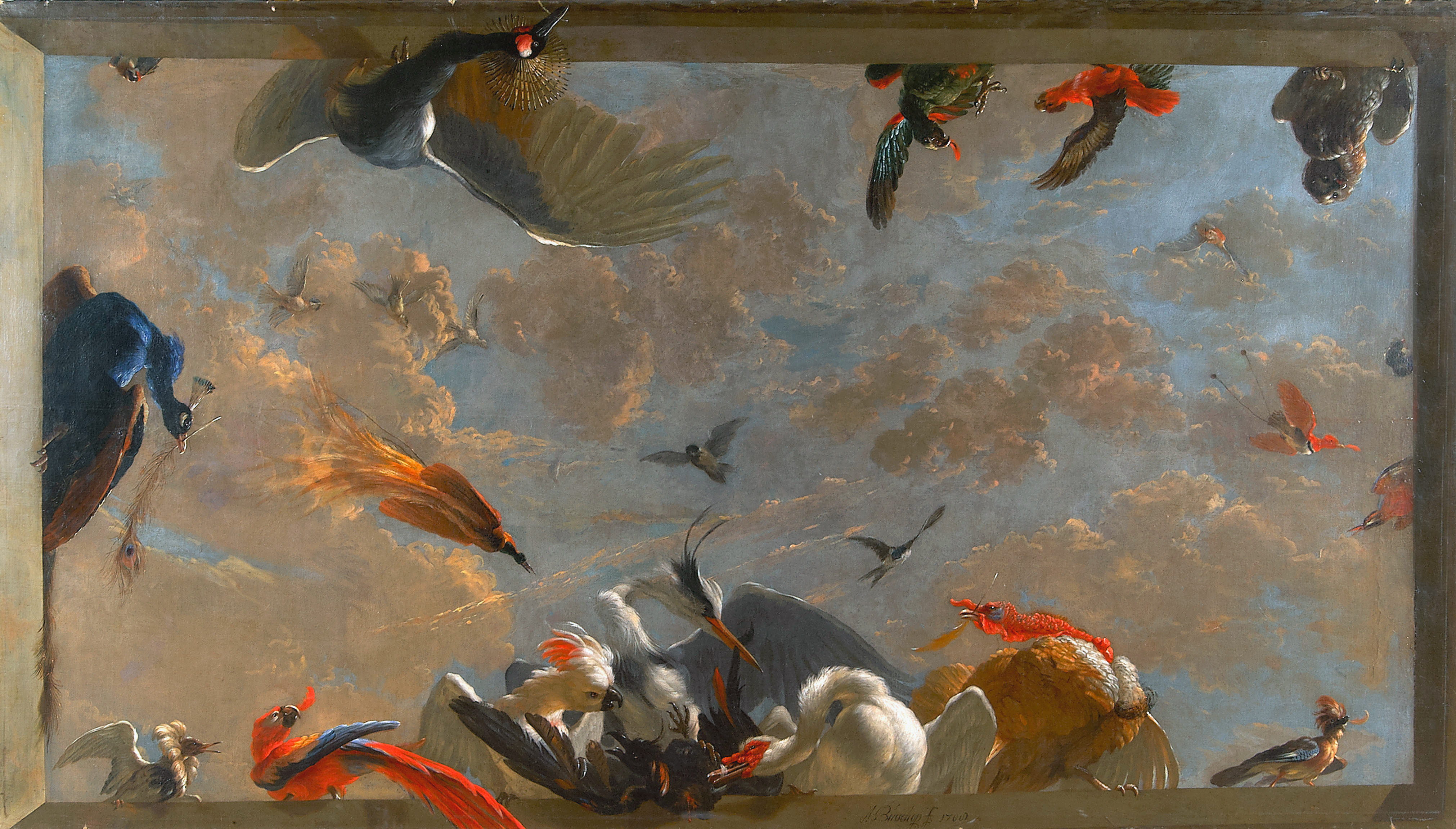 Ceiling "trompe-l'oeil" piece with birds, depicting the story of Aesop about the raven which had stolen the feathers of other birds. oil on canvas 294 x 166 cm signed bottom center: A Busschop f.(ecit) 1708 Tentative identification of bird species from left to right and from top to bottom: upmost row: bullfinch, black crowned crane, eclectus parrot, possibly a lory, tawny owl middle row: peacock, perching birds (passerines), greater bird-of-paradise, swallow, grey heron, swallow, bird of paradise, green finch, river kingfisher bottom row: ruff, scarlet macaw, salmon-crested cockatoo, grey heron, northern raven (or carrion crow), muscovy duck, wild turkey, Eurasian jay.